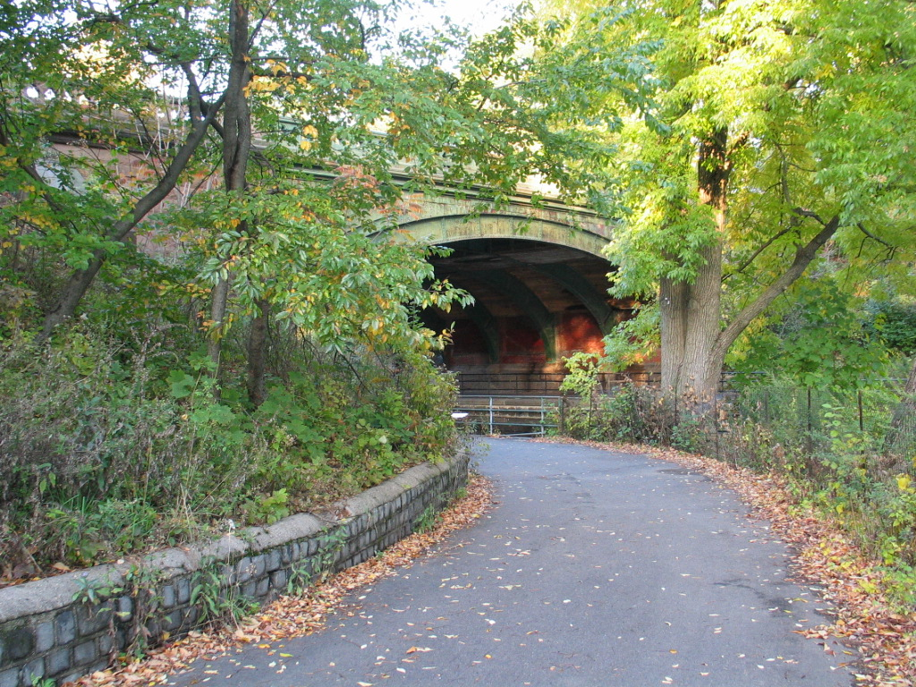 TErrace Bridge in a Prospect Park